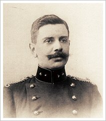 D.C.M. André de la Porte